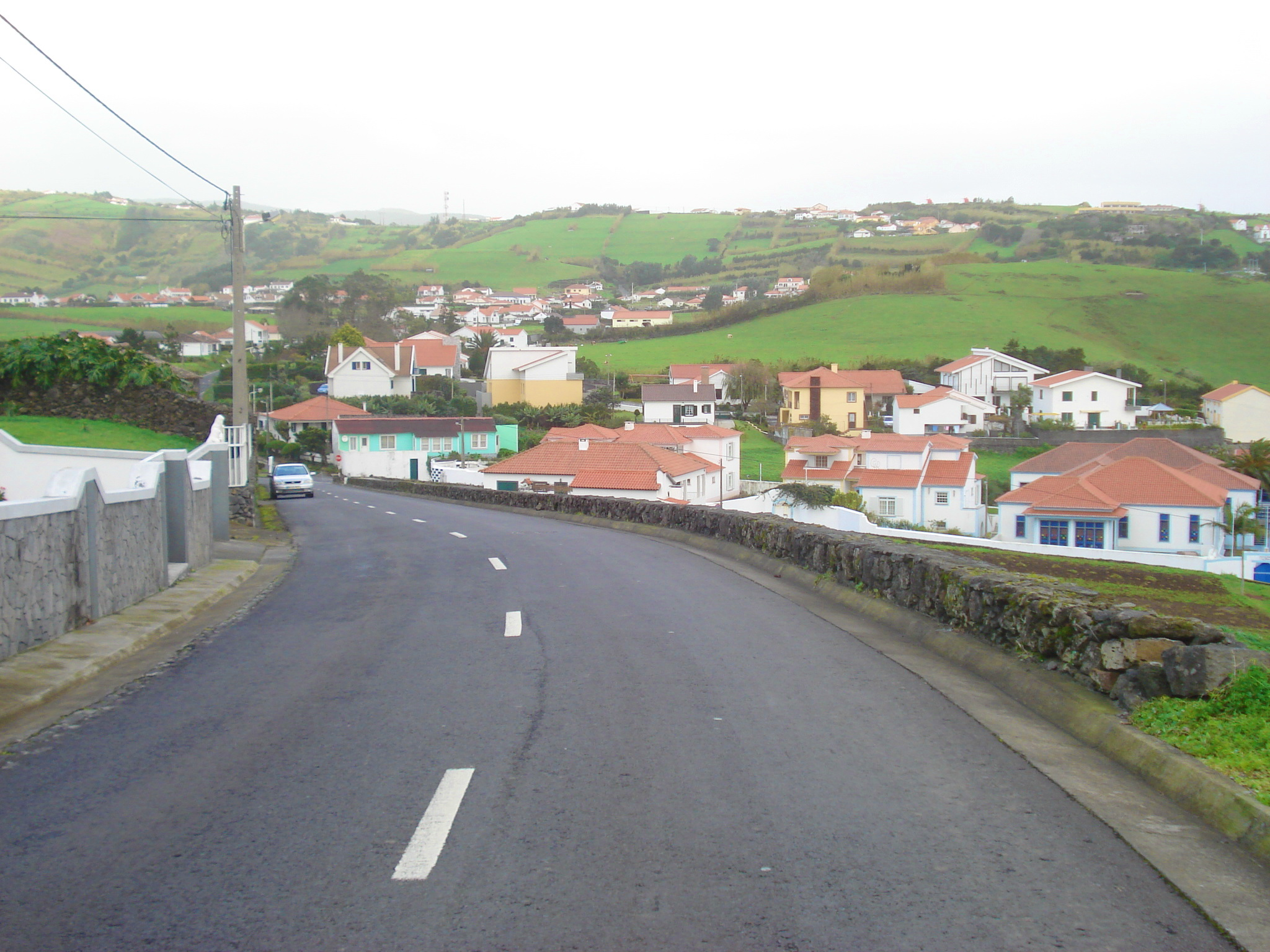 The roadway towards the area of Volta in the civil parish of Conceição, municipality of Horta (Azores), Portugal